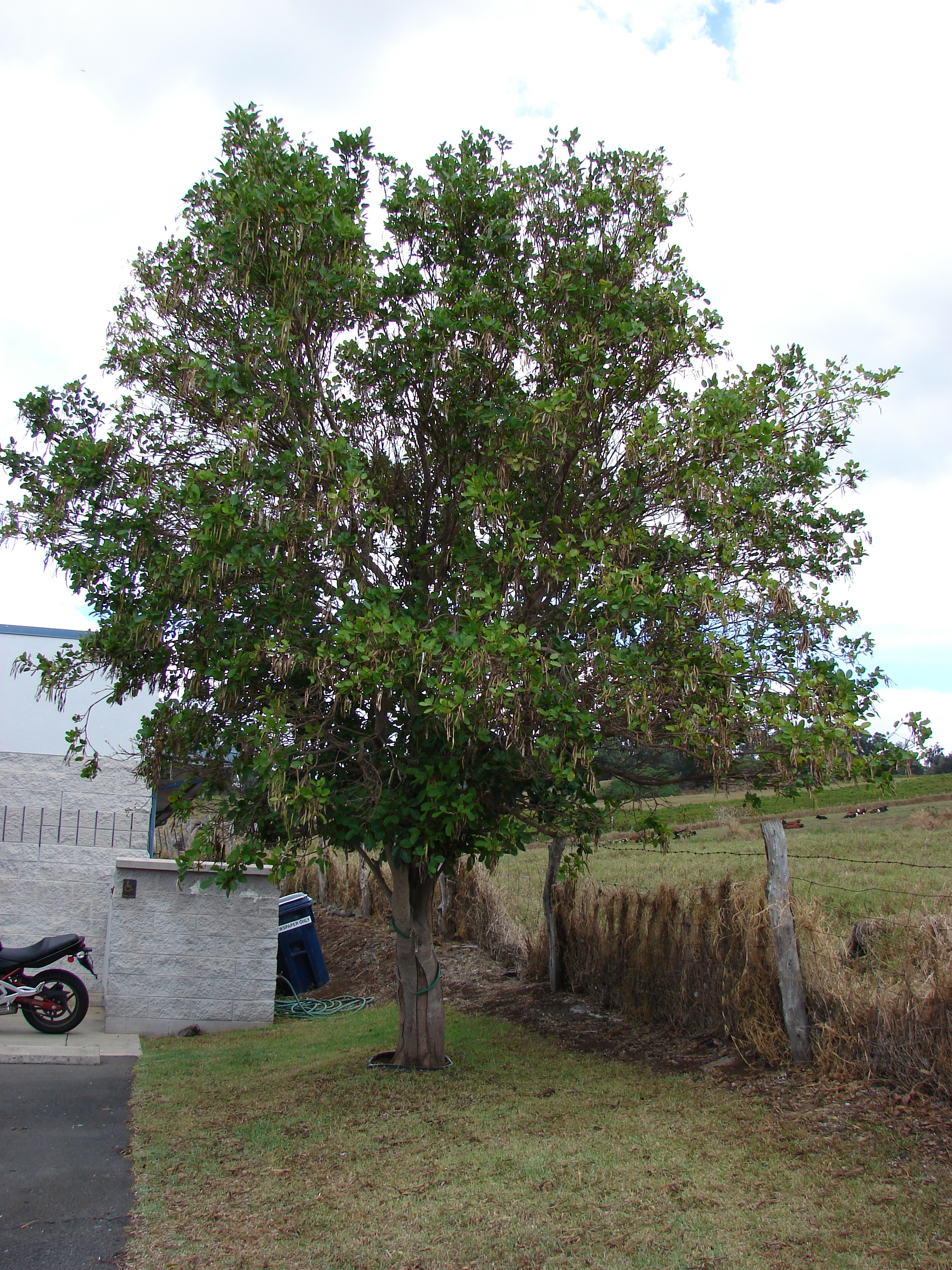 Tabebuia rosea (habit). Location: Maui, Makawao Veterinary Clinic